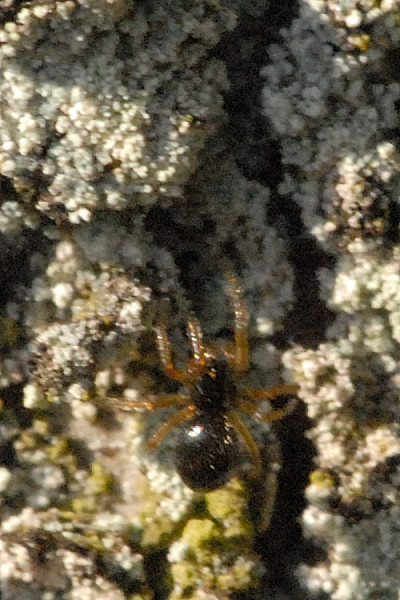 Moebelia penicillata from Commanster, Belgian High Ardennes .